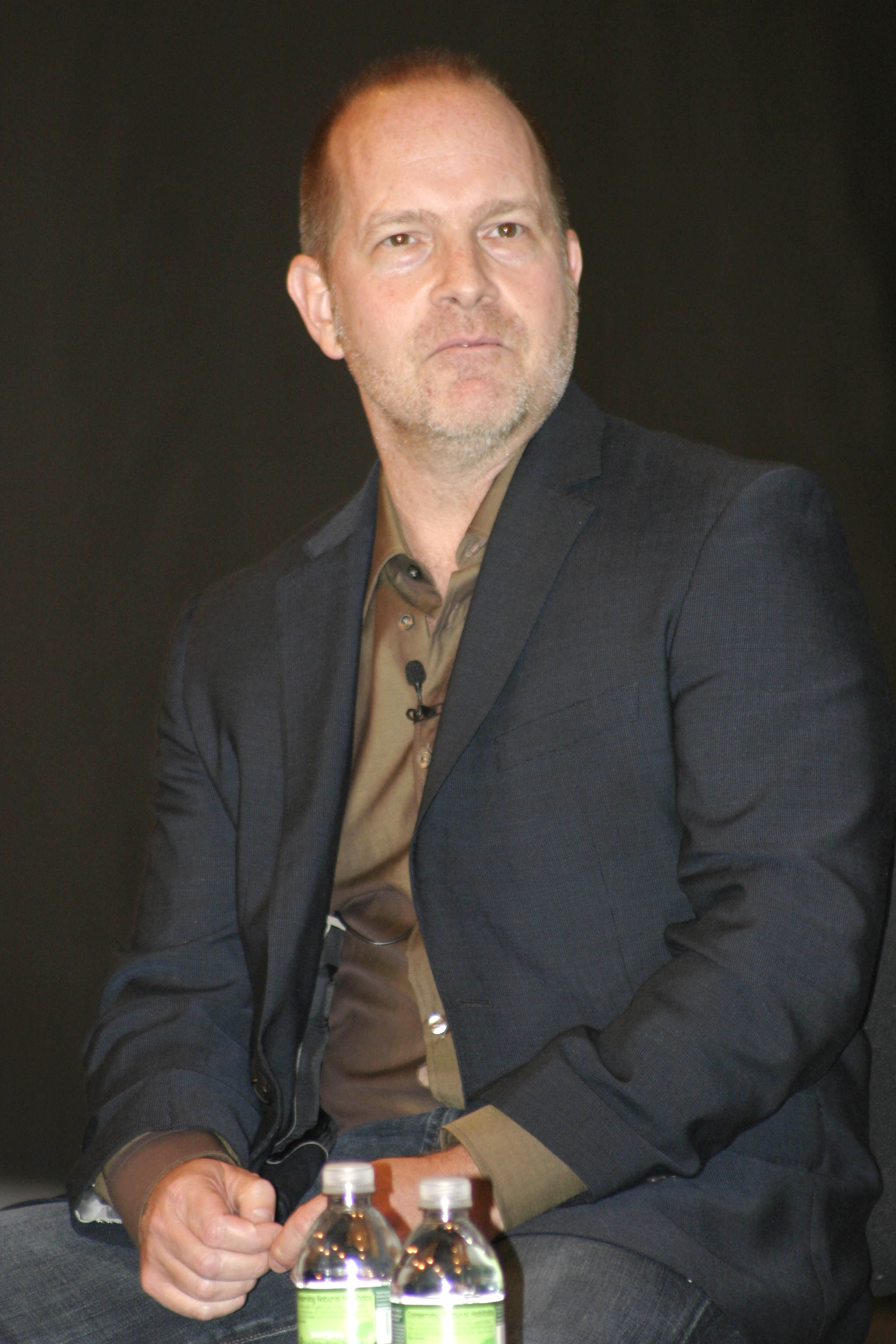 Actor Mike Henry at the 2009 New York Television Festival. © Rubenstein, photographer Martyna Borkowski